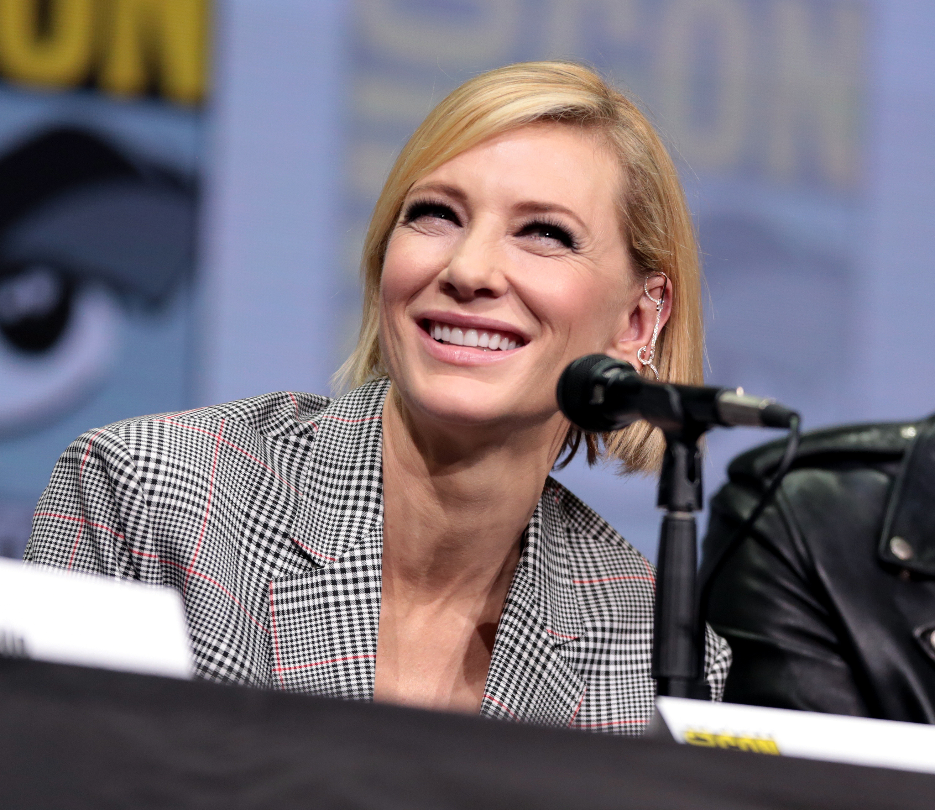 Cate Blanchett speaking at the 2017 San Diego Comic Con International, for "Thor: Ragnarok", at the San Diego Convention Center in San Diego, California.